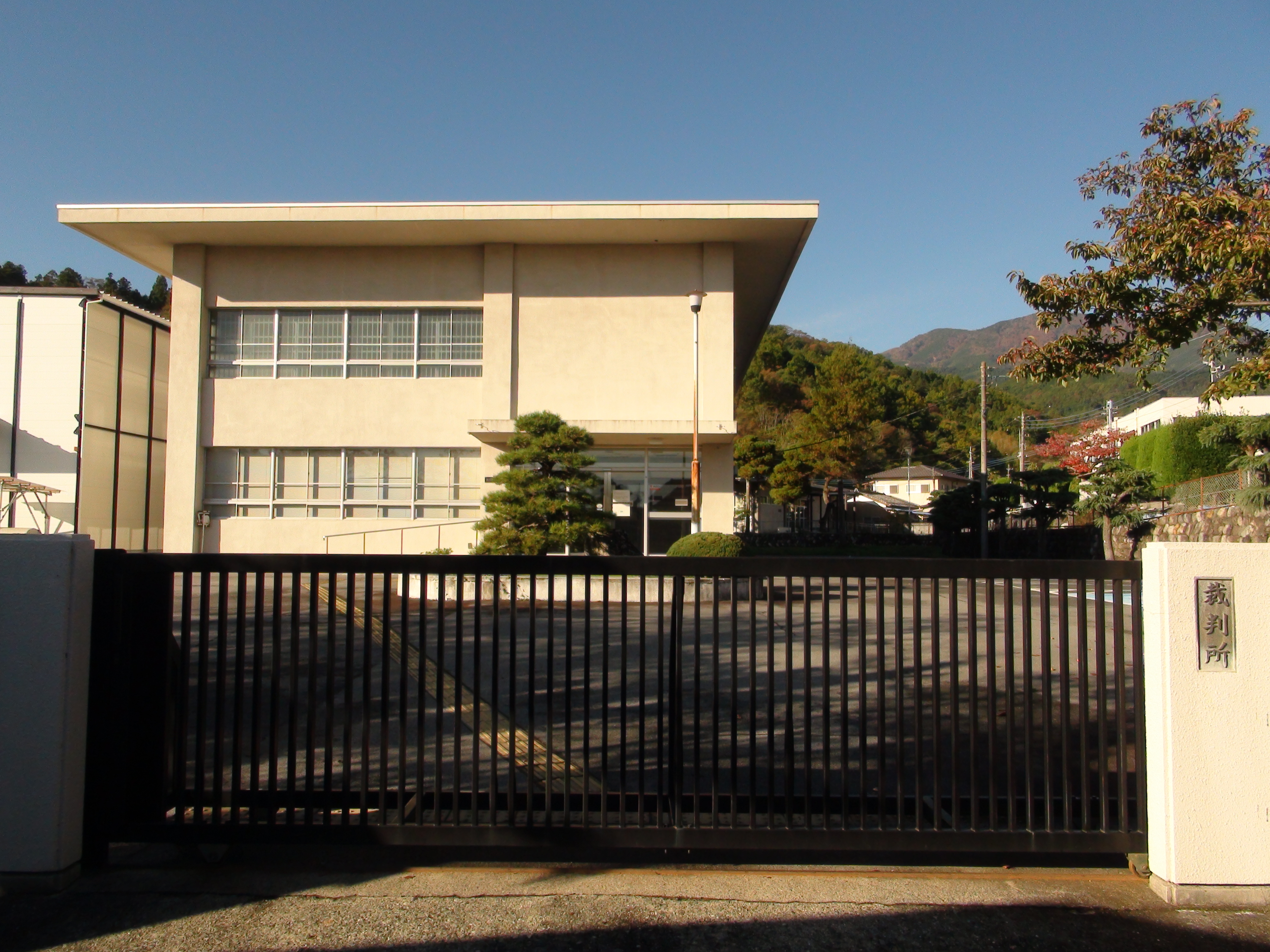 Kajikazawa Summary court in Fujikawa,Yamanashi,Japan